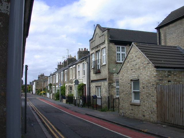 Covent Garden The building in the centre is now several residential units; it looks to have been something more substantial in the past but I can't discover what.